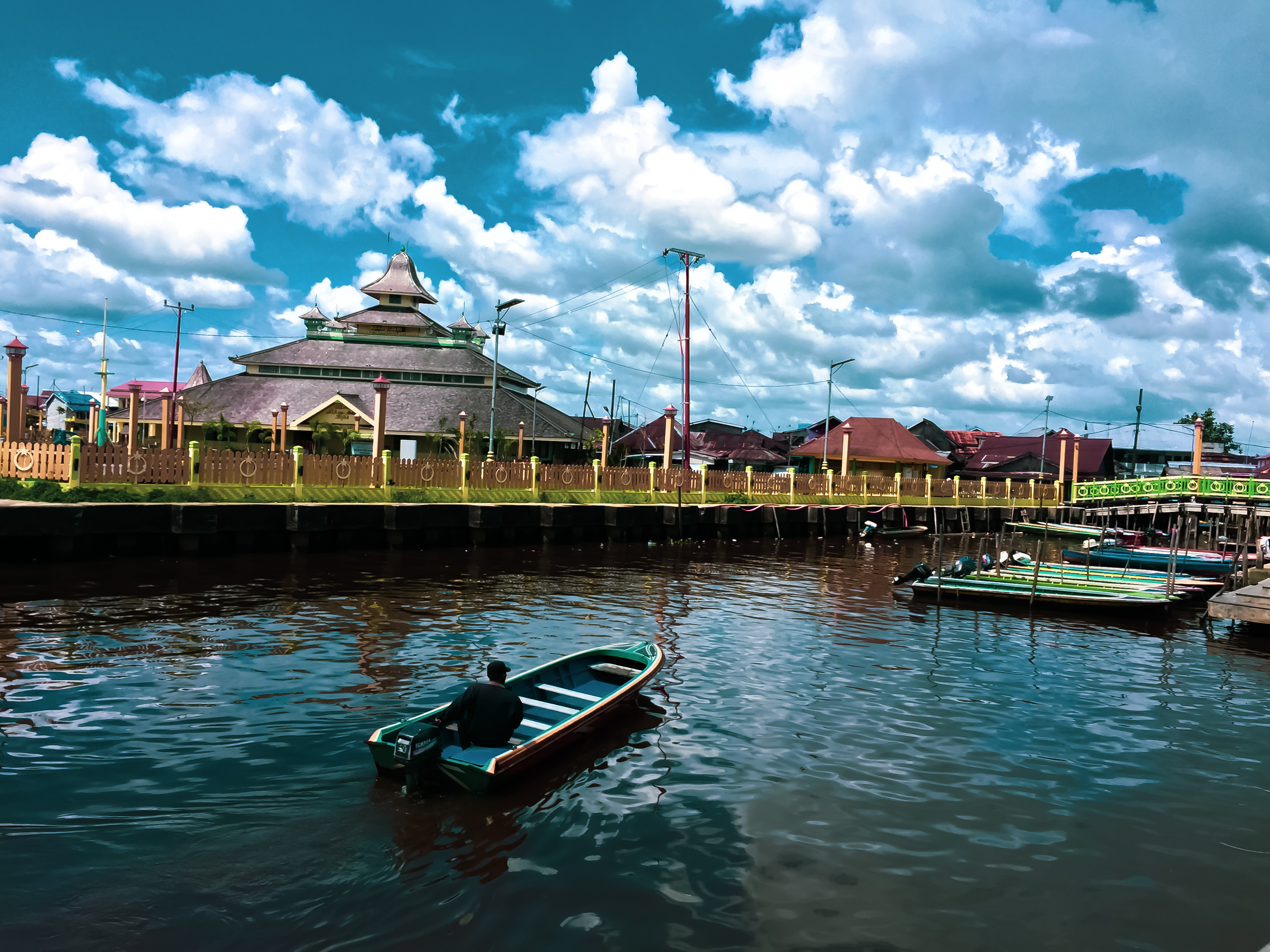 Masjid Jami' Pontianak, also known as Sultan Syarif Abdurrahman Mosque.